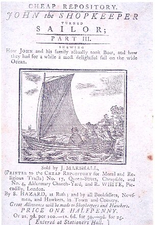 Cover of Hannah More's (1745-1833) “The Shopkeeper Turned Sailor.” From Cheap Repository Tracts. Entered at Stationers Hall. 1796.